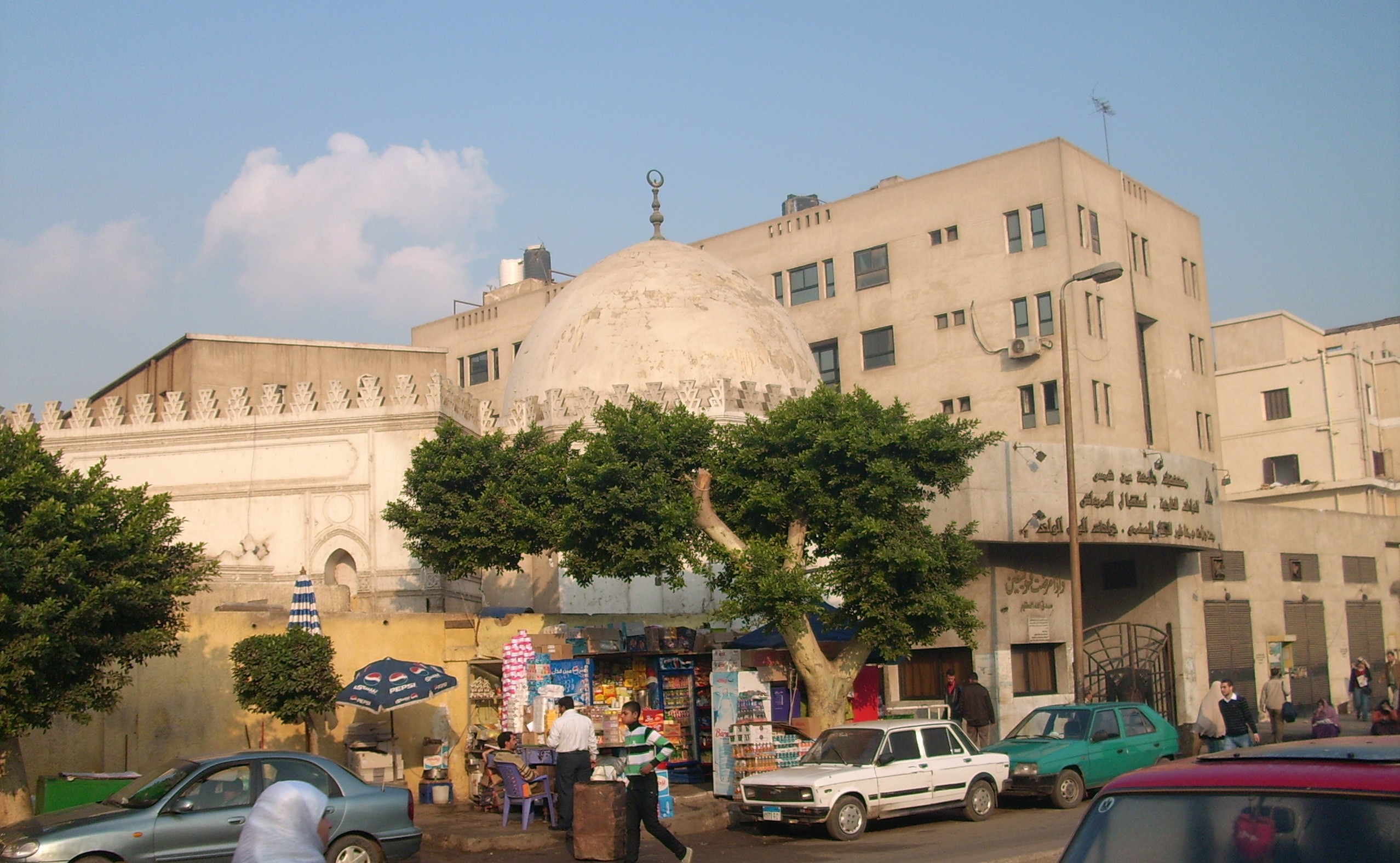 Demerdash Hospital from outside